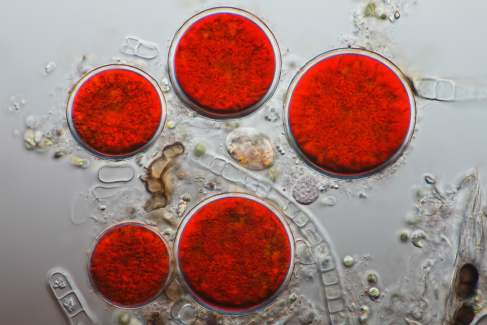 Haematococcus pluvialis, Chlorophyta. Microscopic recording with differential interference contrast.